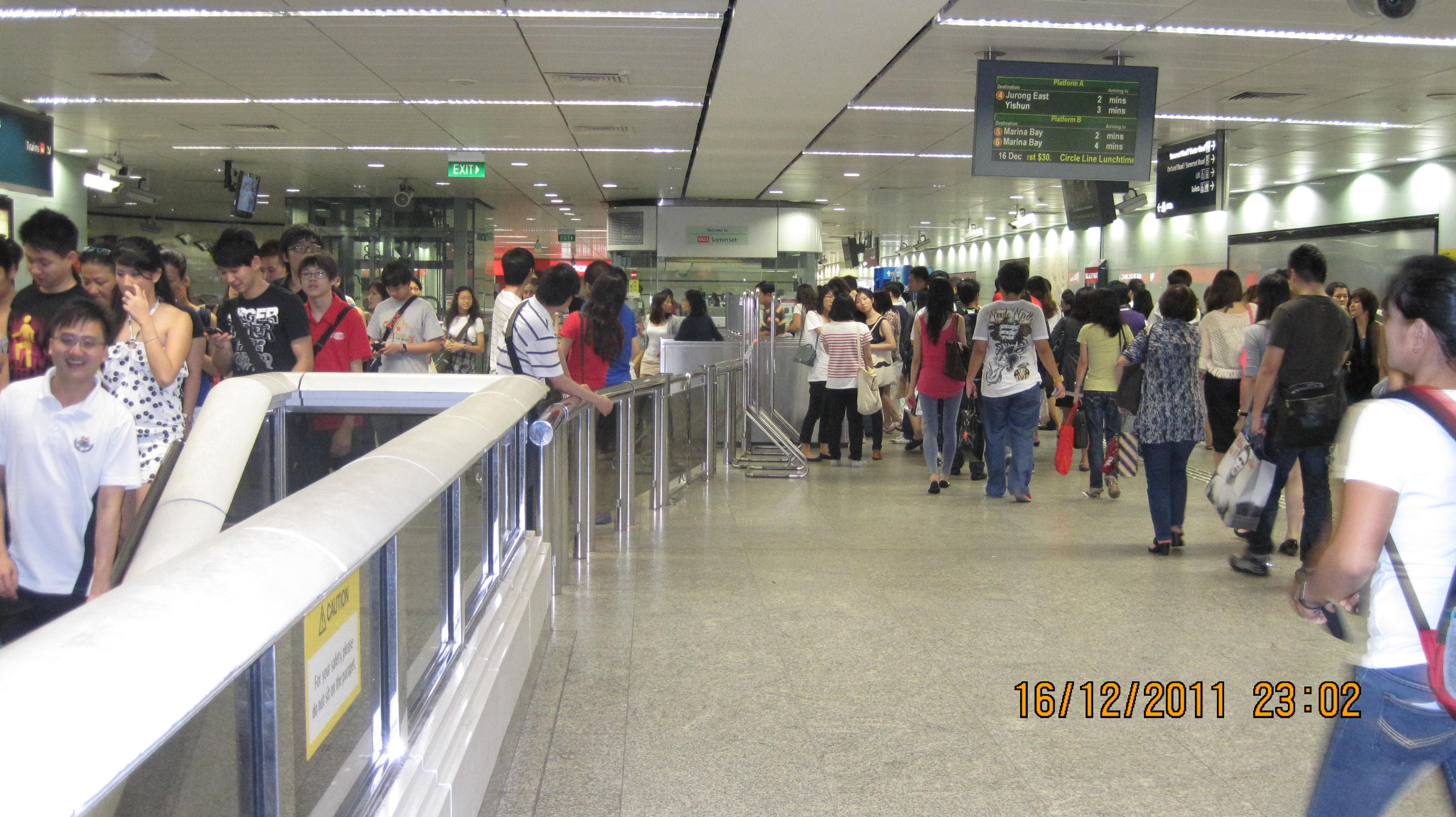 Interior of Somerset MRT Station during peak Pre-Christmas hours.